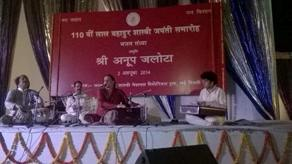 pics taken on 110th birthday of Lal Bahadur Shastri